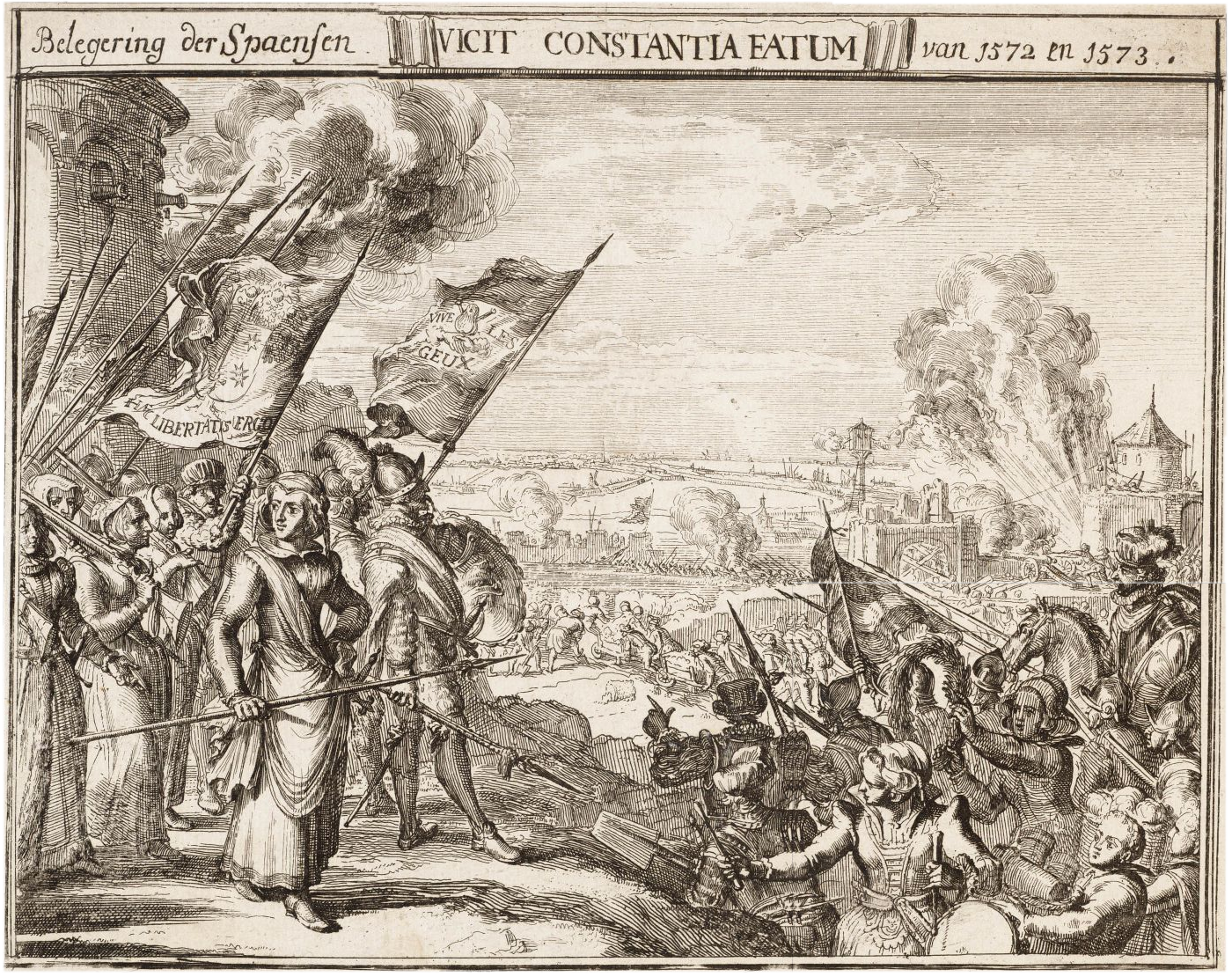 Siege by the Spanish / Vicit constantia fatum / from 1572 until 1573 - Battle of Kenau at defences of Harlem (Netherlands)- Historieprenten Provinciale Atlas